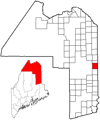 Adapted from U.S. Census Bureau maps (American FactFinder) and Wikipedia's ME county maps by Bumm13.